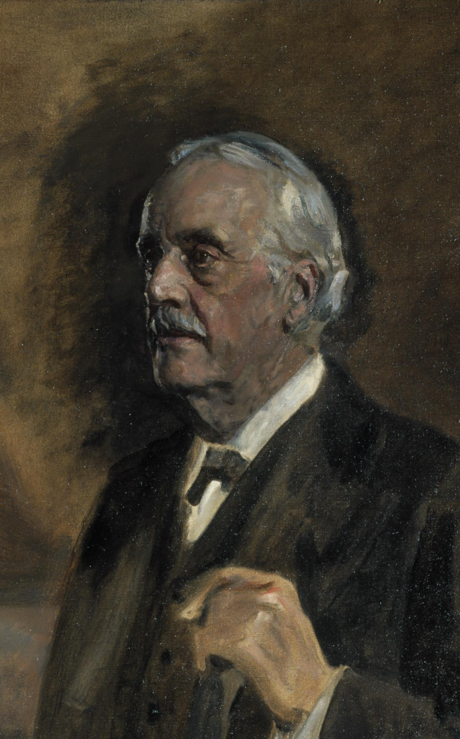 Arthur James Balfour, 1st Earl of Balfour